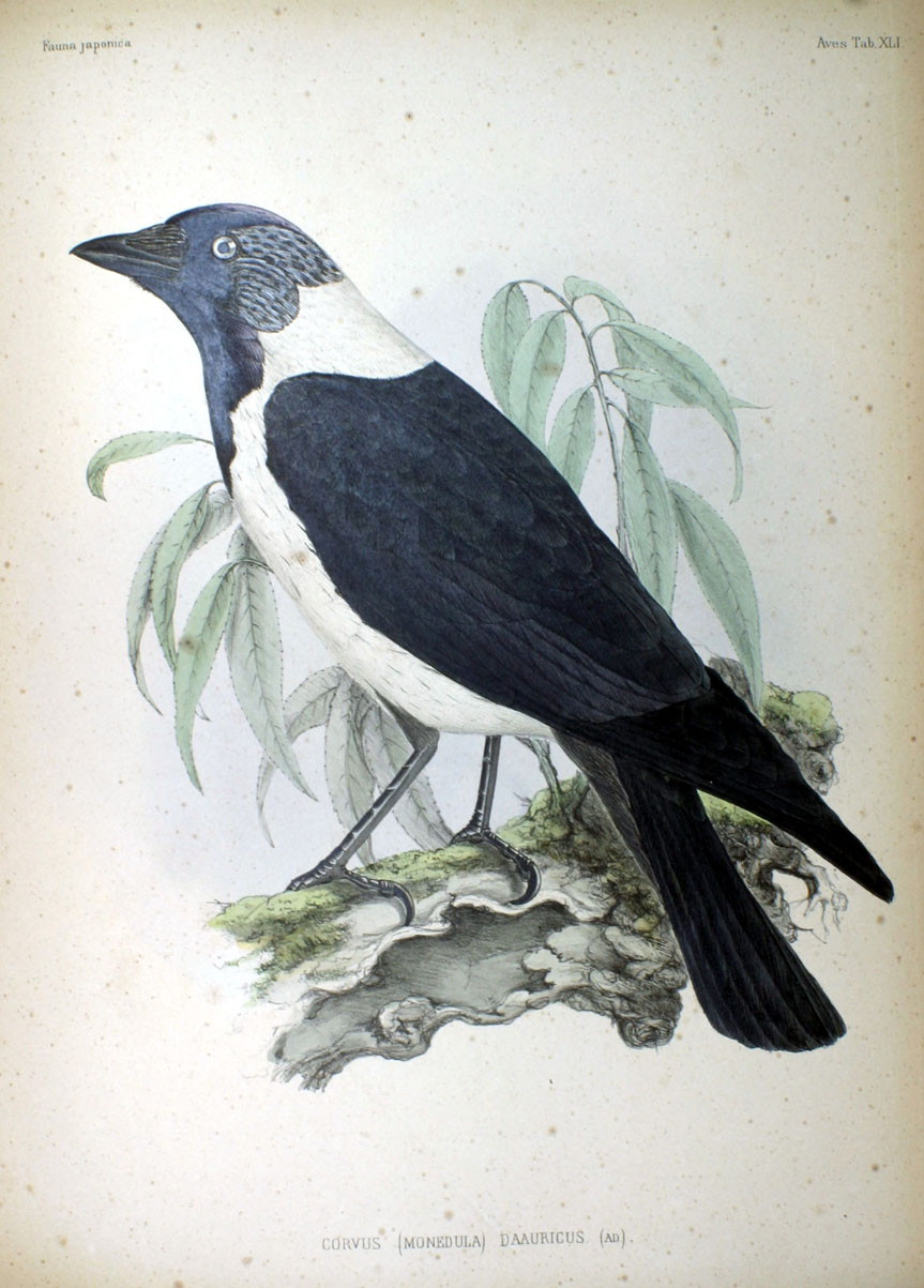 An illustration of a Daurian Jackdaw (Corvus (Monedula) dauricus = Corvus (Coeleus) dauuricus) from Fauna Japonica